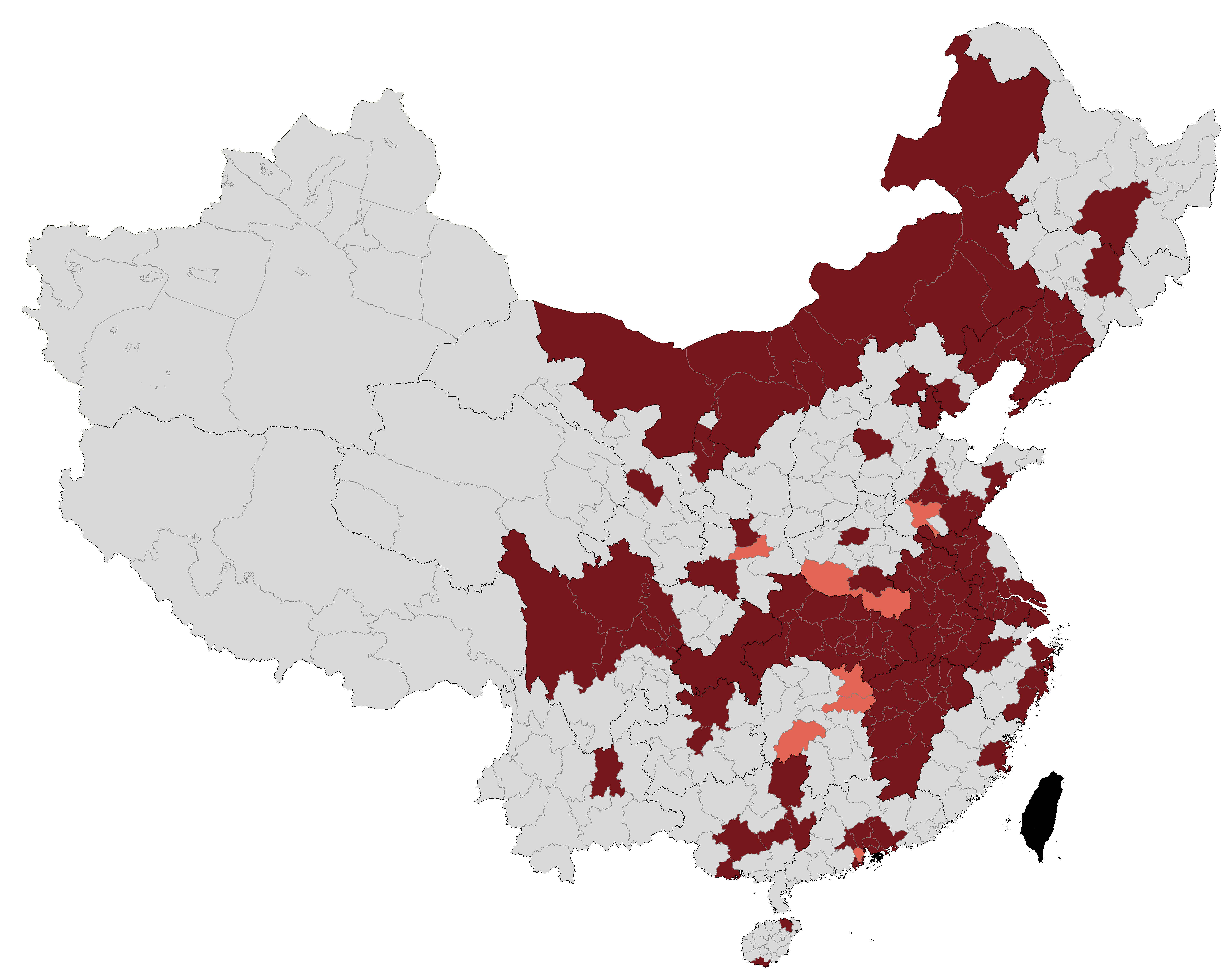 Cities and prefectures in mainland China blocked due to 2019-nCoV outbreak. The city was blocked. The city wasn't blocked, but with confirmed cases greater than 100; or with confirmed cases less than 100, but the attack rate greater than the average attack rate of mainland China This file was derived from: China Prefectural-level divisions (PRC claim).png by ASDFGH